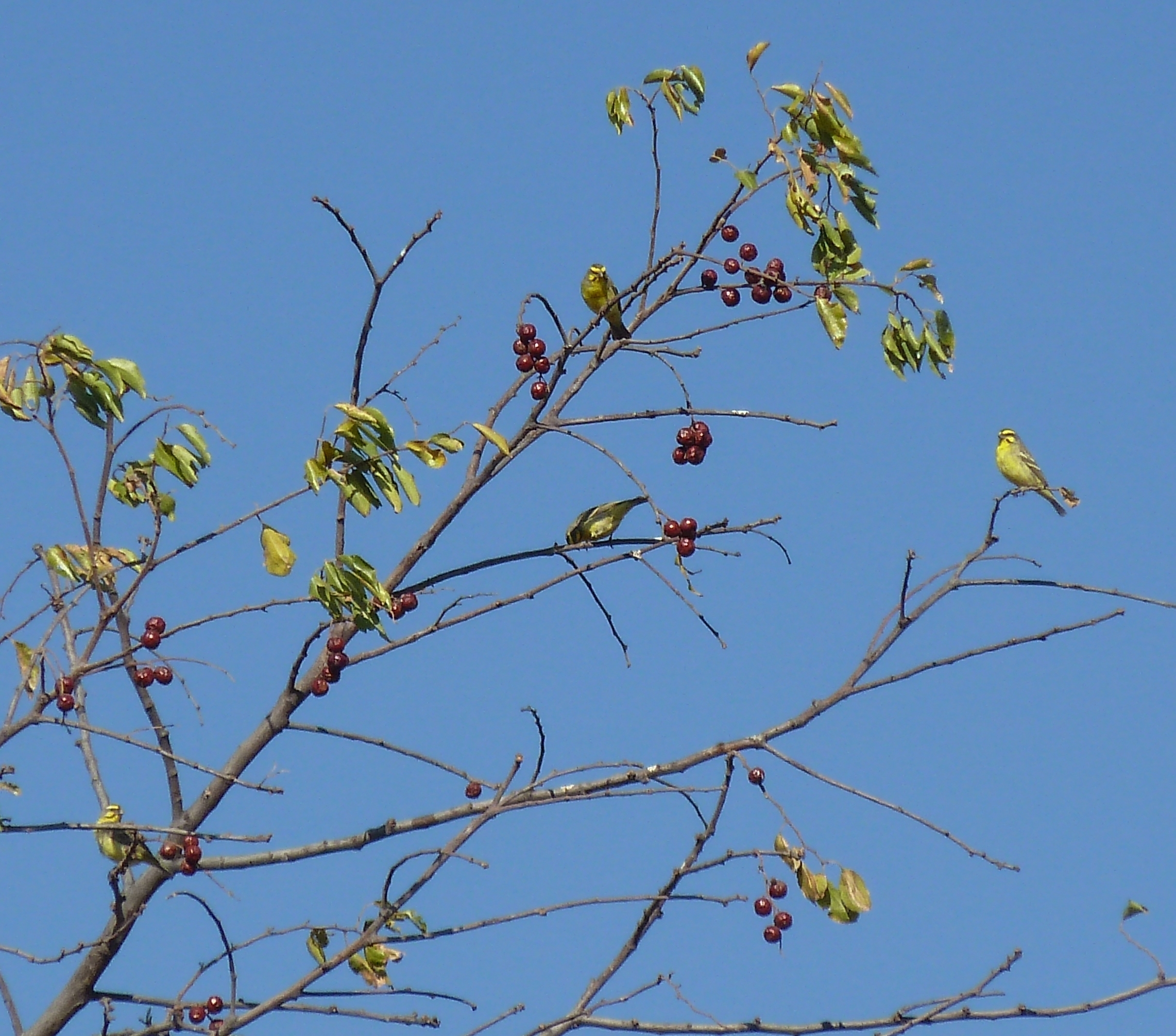 Winter flock of Yellow-fronted Canaries in a Buffalo thorn, Waterberg, South Africa